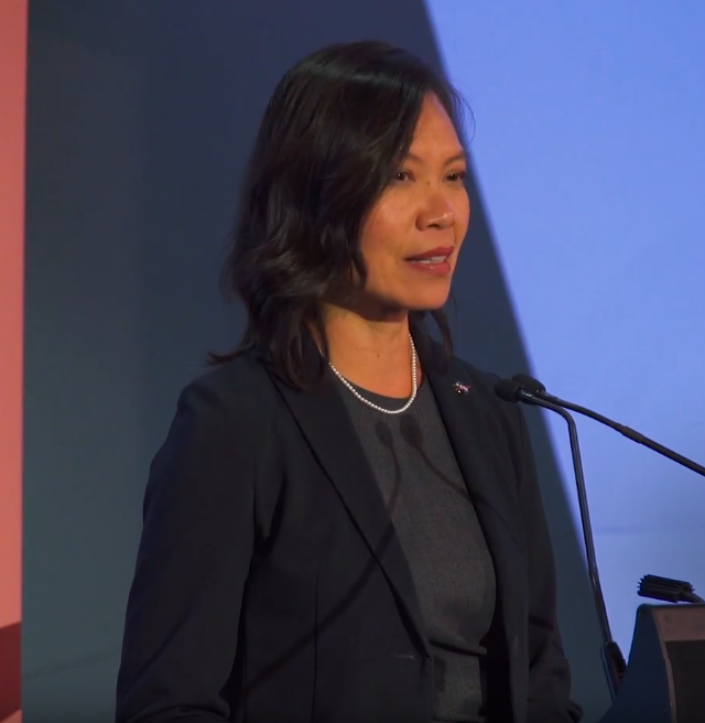 To celebrate National Science Week in Victoria, Australia, scientists working in our planet's most extreme conditions came together to share their work in exploring the ocean's deepest abyss, the extreme heat of the deserts and the freezing cold of the polar regions, all in the name of future human endeavour both on - and off - planet Earth. Featuring geobiologist Dr Darlene Lim (NASA Ames Research Centre), planetary scientist Dr Kate Selway (Macquarie University), vertebrate zoologist Dr Dianne Bray (Museums Victoria), with dynamic ABC News Breakfast meteorologist Nate Byrne as our MC. Presented on 9th August, 2019 at the Melbourne Museum by Museums Victoria, the Royal Society of Victoria and Victoria's Lead Scientist under the Inspiring Victoria initiative.